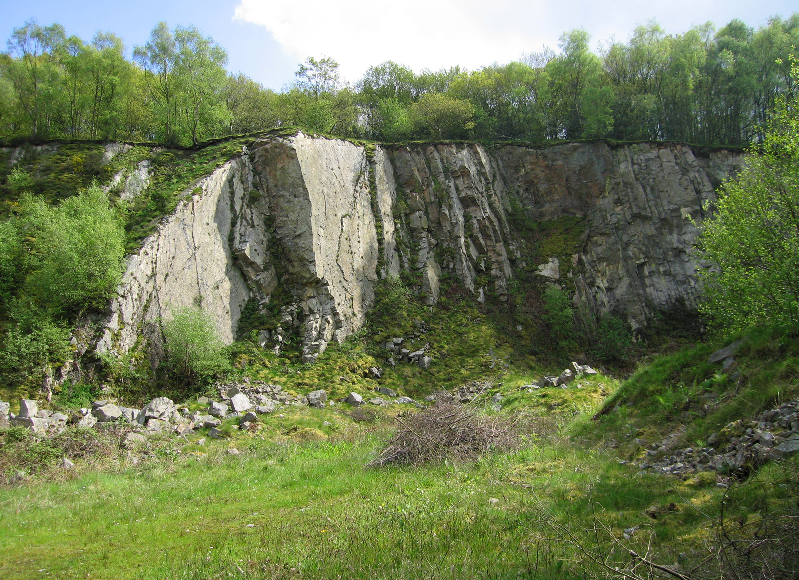 Disused quarry at Poles Coppice, Pontesbury, Shropshire, England. The rocks are of Ordovician (Arenig) age.